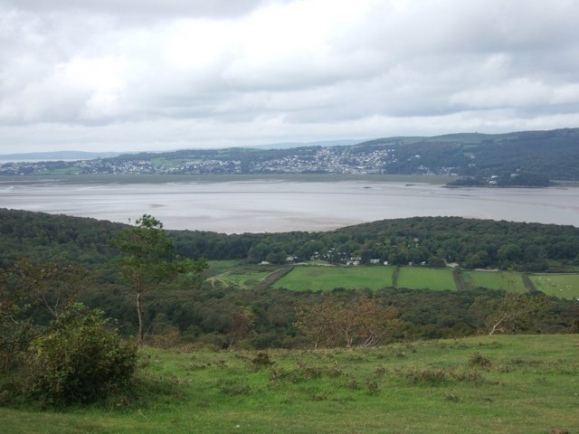 Below Arnside Knott Grange-over-Sands in the distance, on the other side of the Kent estuary.